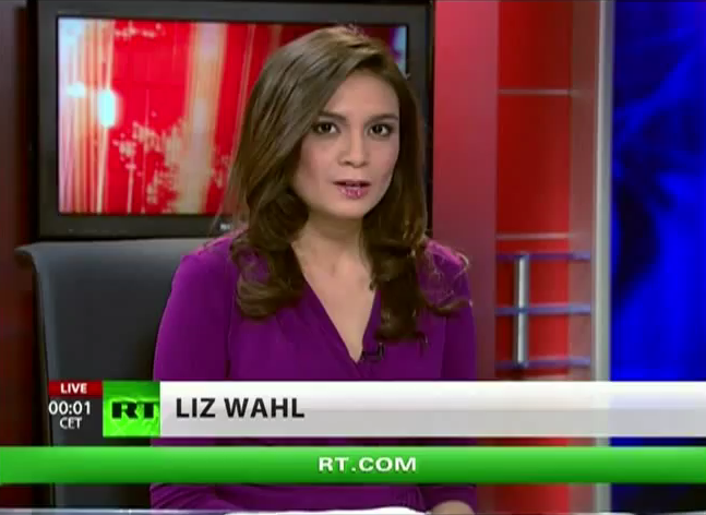 Former RT America anchor Liz Wahl on 16 March 2012